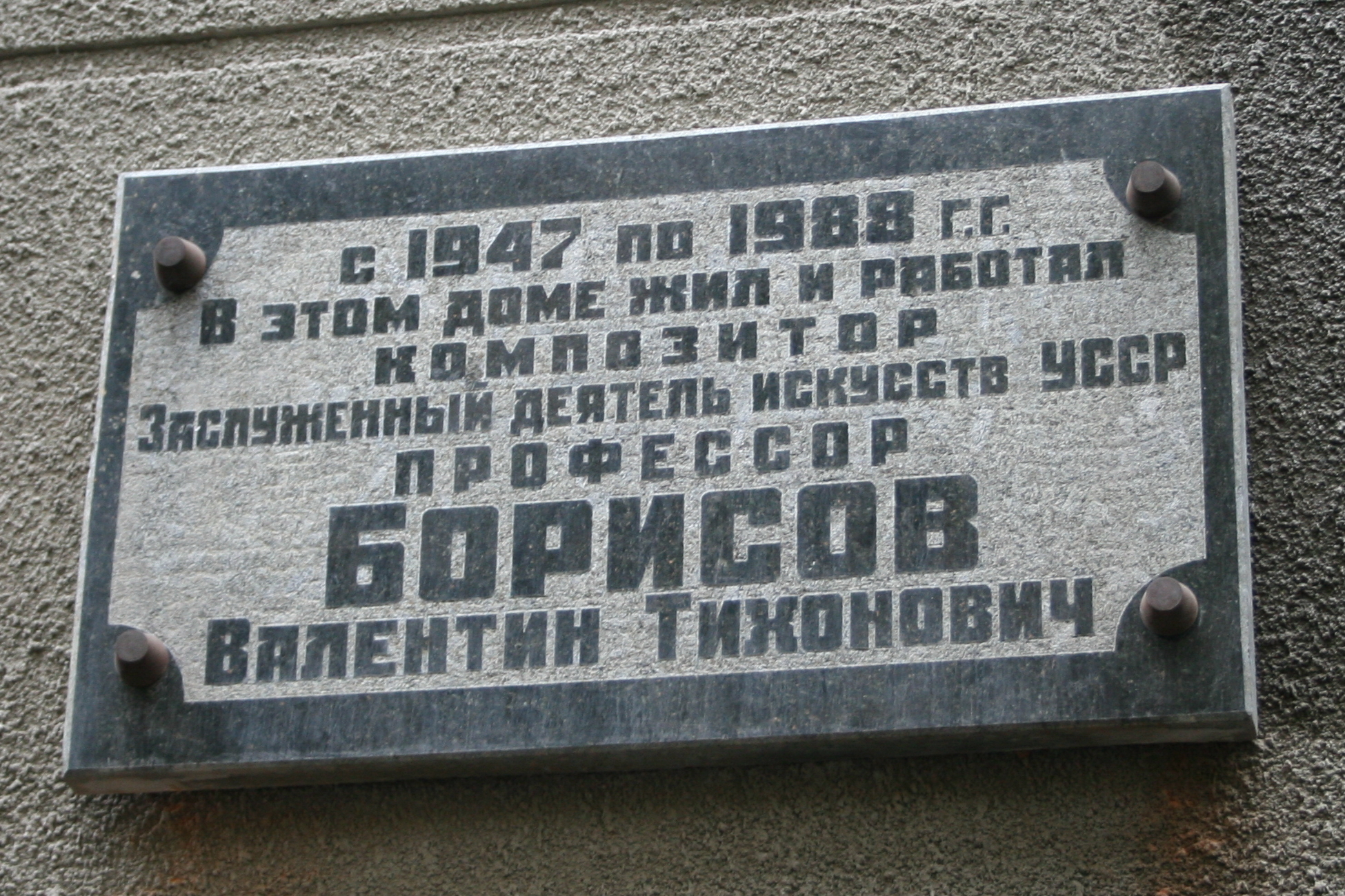 Memorial plaque on the house where composer Borysov lived.